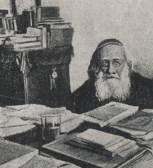 Father Ghevond Alishan (1820-1901) Historian, poet and Armenian-Catholic monk